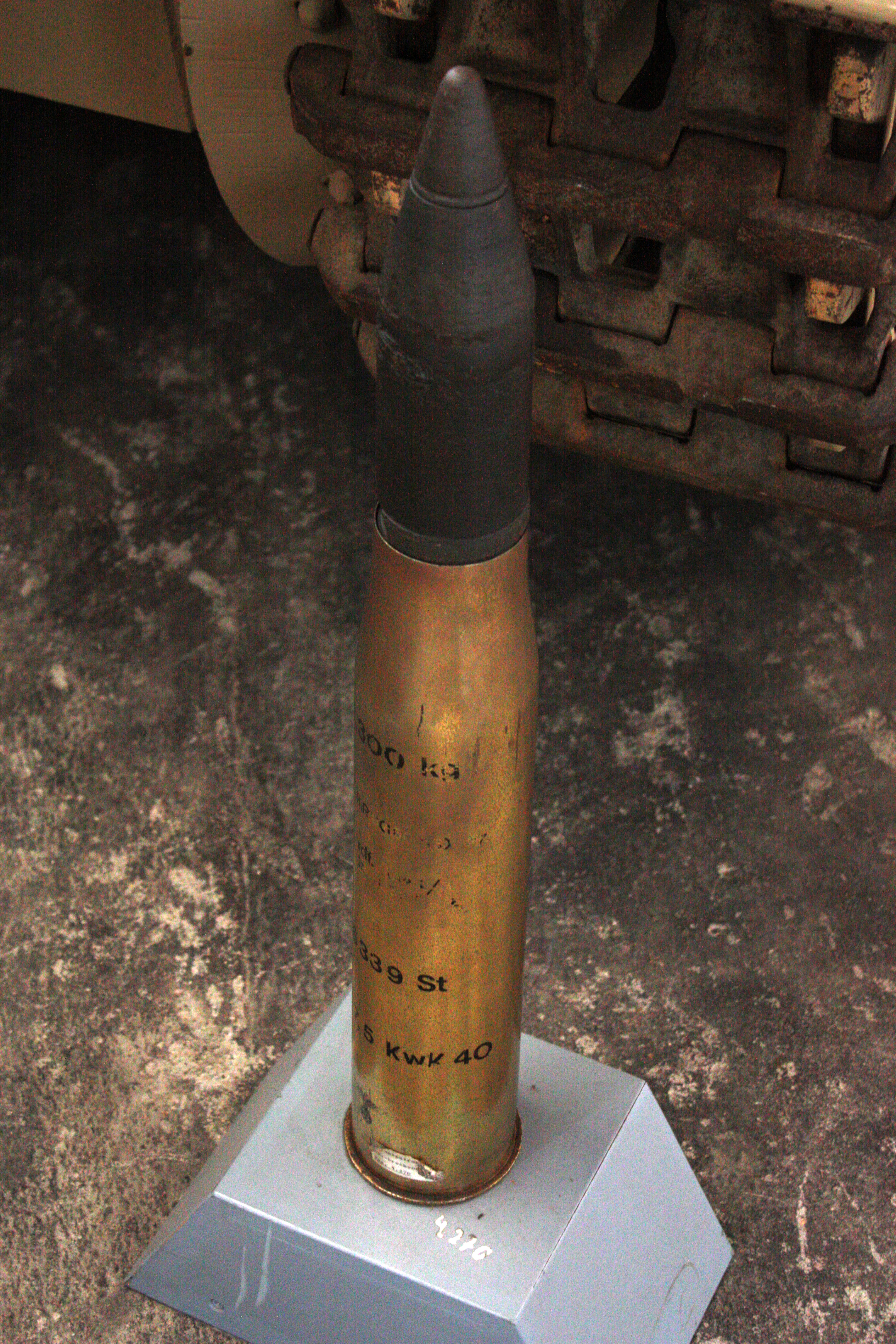 Granade-cartridge of the German Wehrmacht until 1945, here: caliber 75×495 mm R (R = rimed cartridge) to all 7.5-cm-KwK and 7.5-cm-StuK, German Tank Museum (Munster, Lower Saxony, Germany).